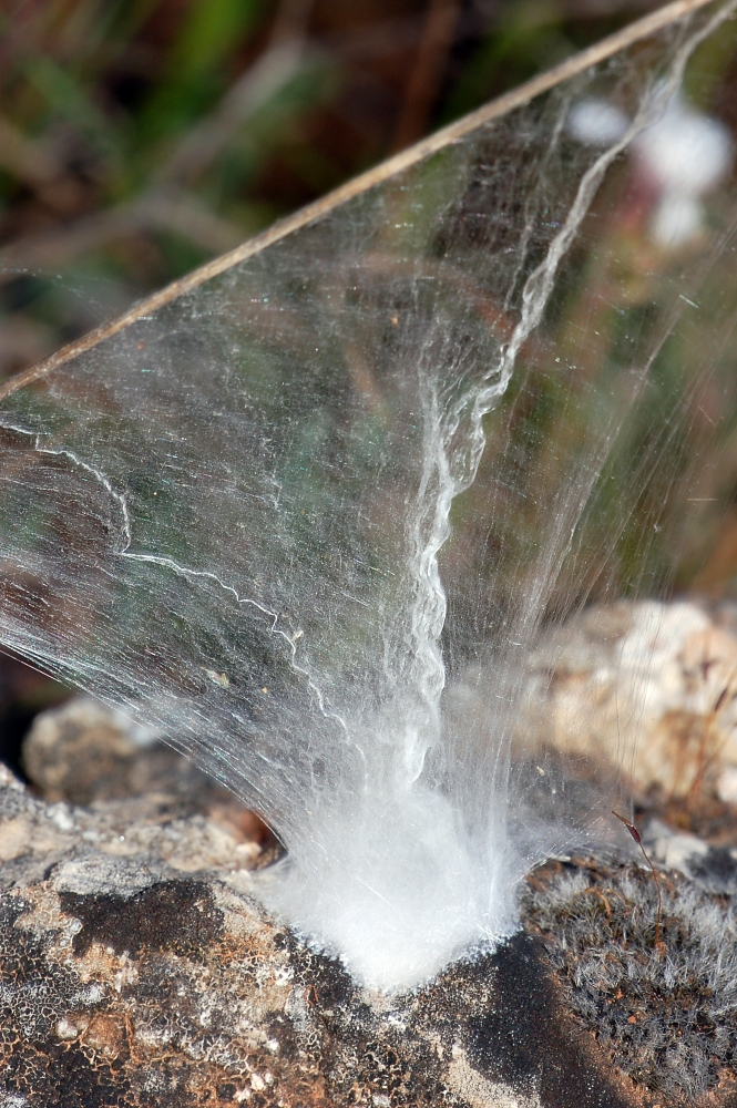 Web of a Pellenes brevis, female (det. Heiko Metzner, 2008), 2 km North of Le Caylar, 43°51'N 03°19'E, 800mNN, Languedoc-Roussillon, France